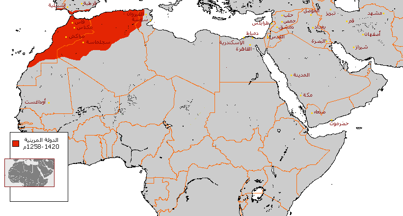 The Marinid empire at its maximal extent, 1347–1348 (AD)